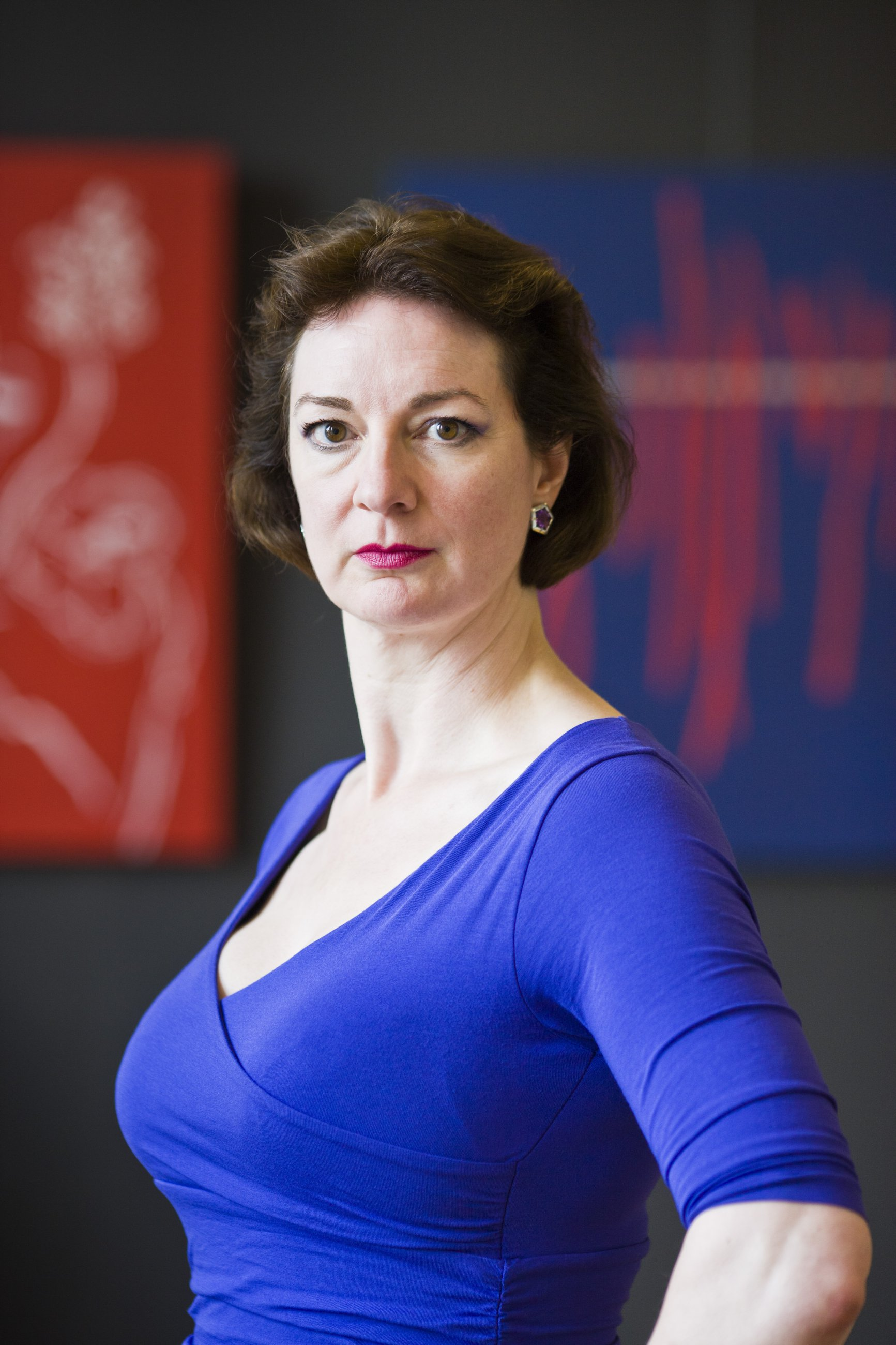 Dutch psychologist Naomi Ellemers (2010)